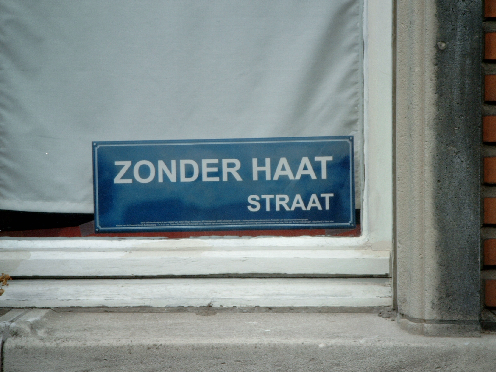 "Zonder haat straat" (Street without hatred) sign